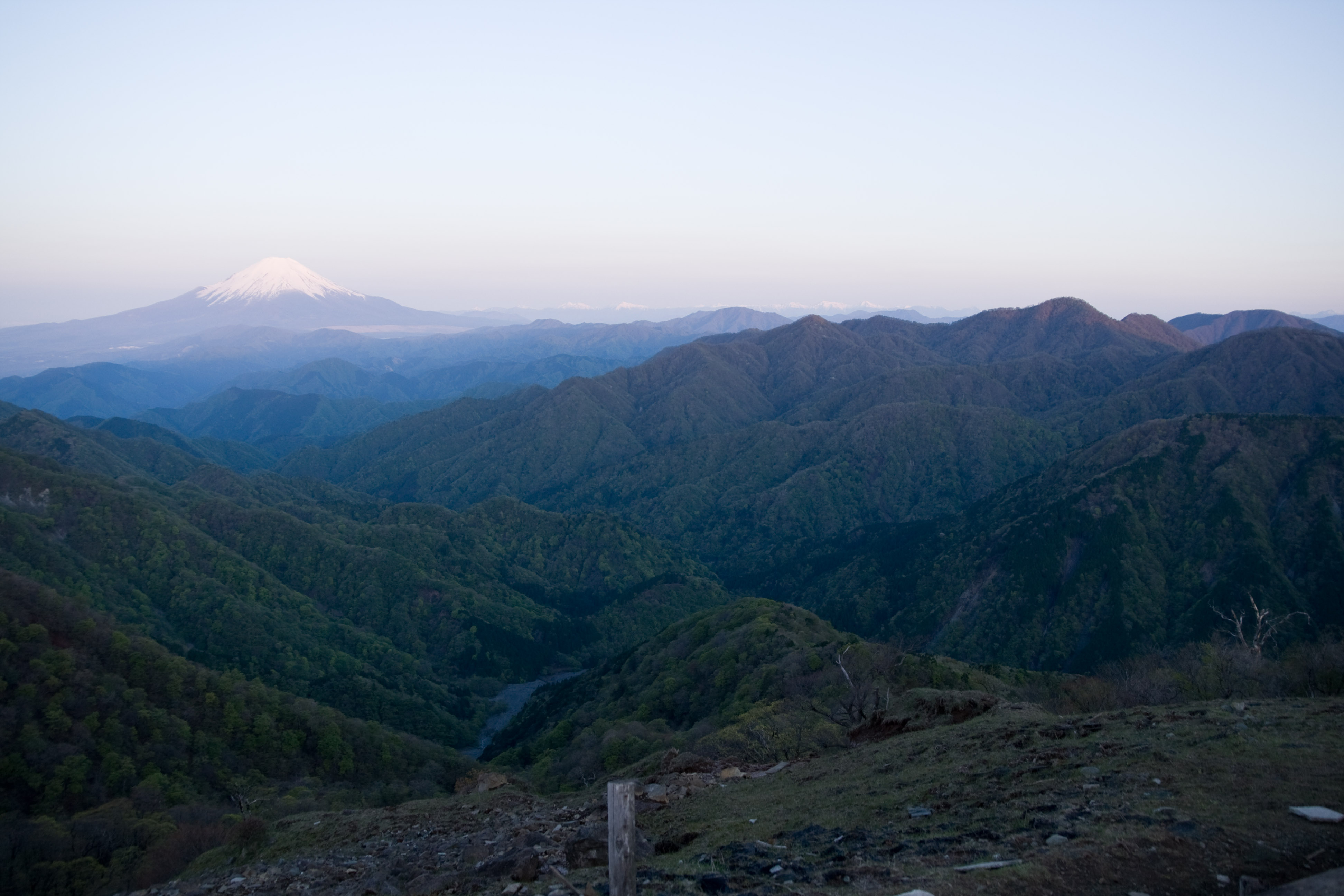 Mt.Fuji as seen from Mt.Tonodake, Kanagawa Pref., Japan.